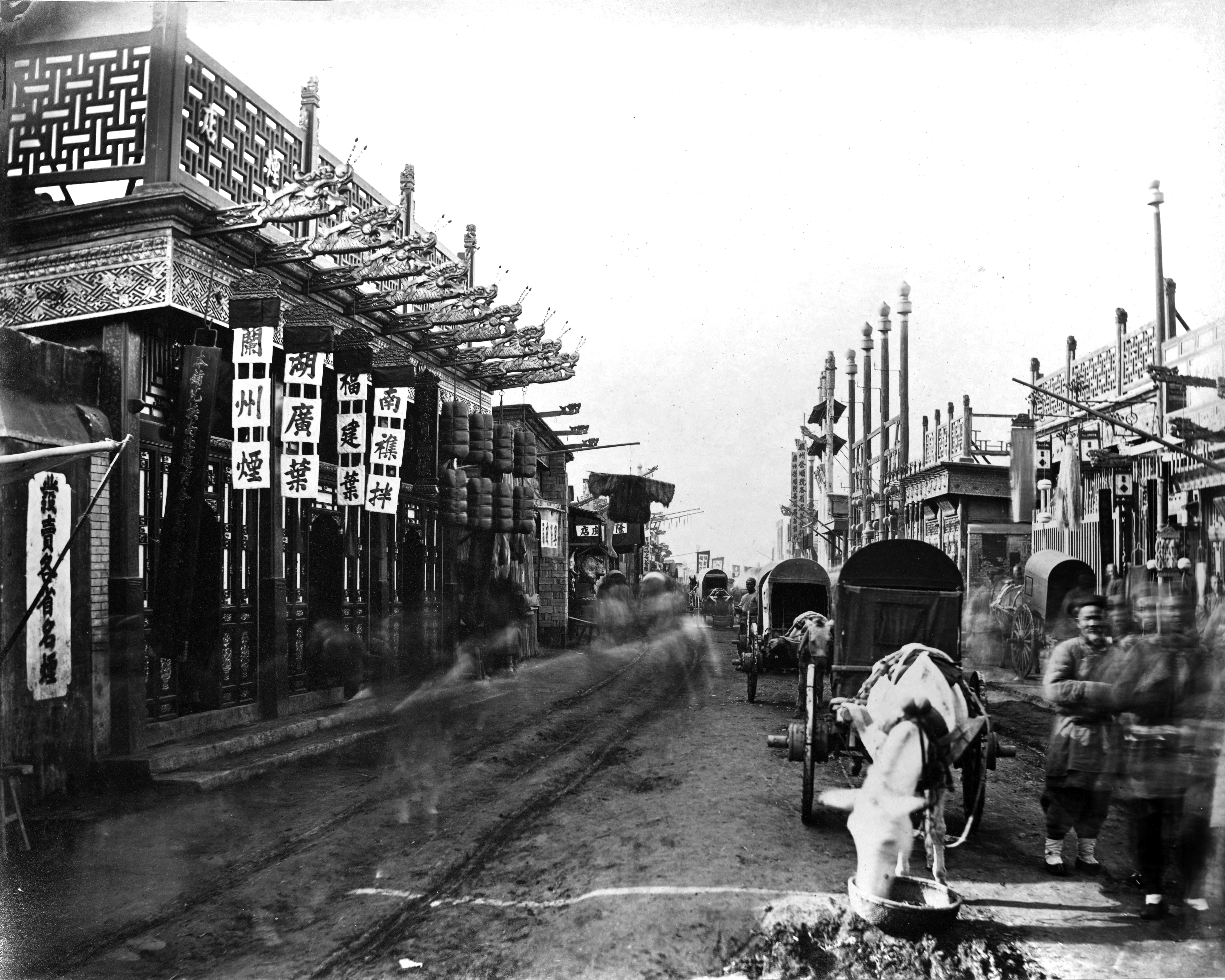 Photograph in Album of photographs of Peking and its environs.